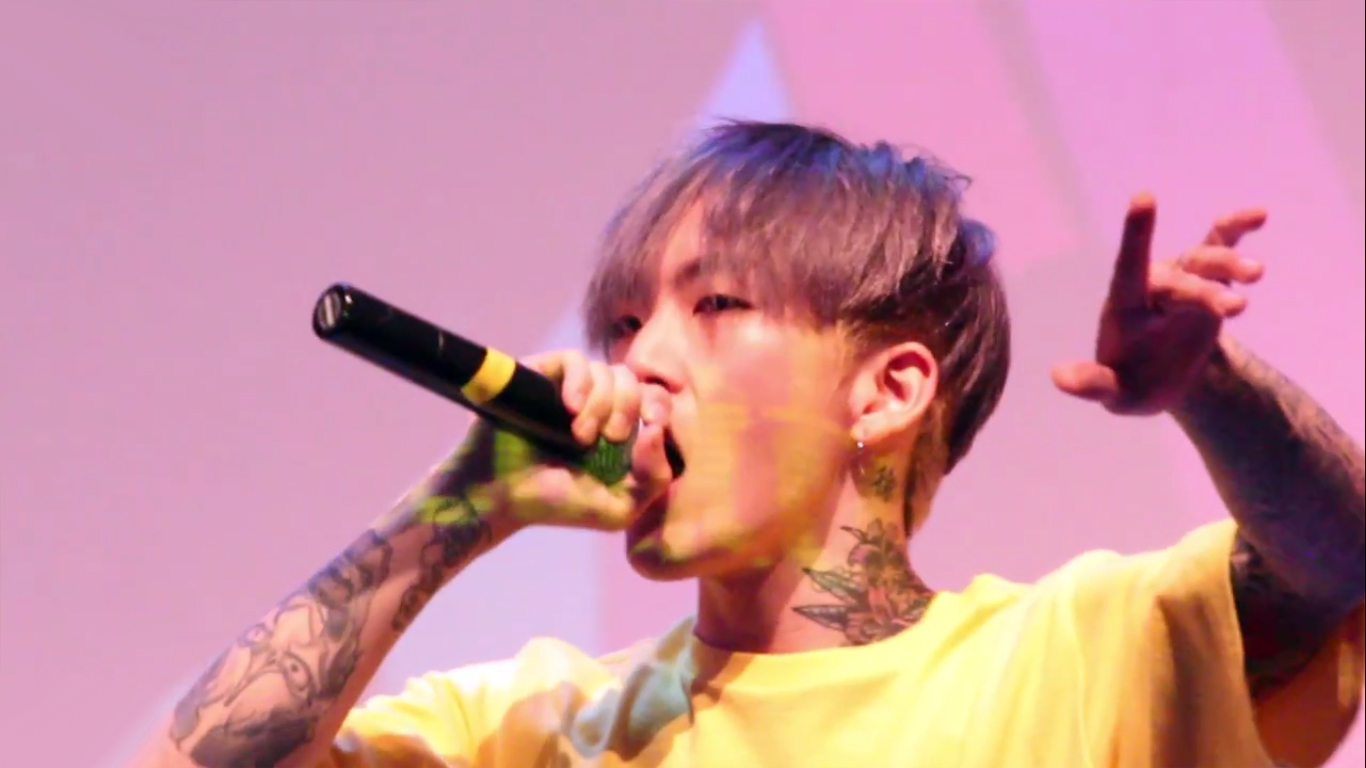 Samuel Seo performing "Make Up Love" at the K-pop World Festival 2016 in Changwon, South Korea.